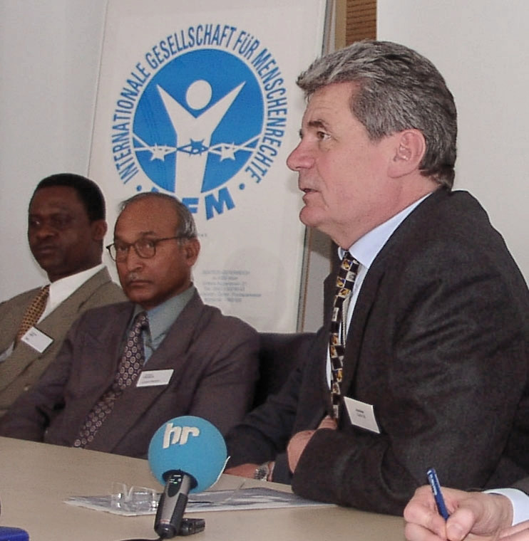 Joachim Gauck attending a IGFM press conference